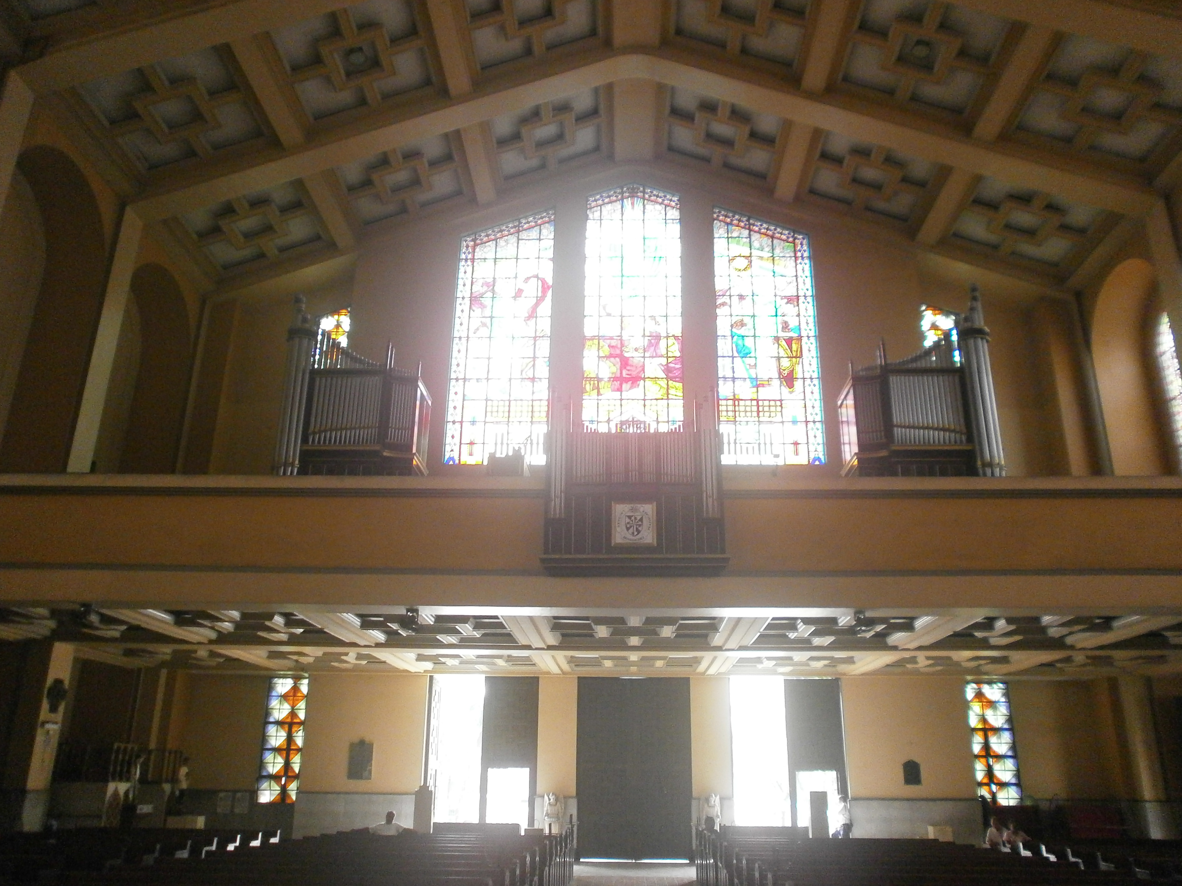 Santo Domingo Church choirloft